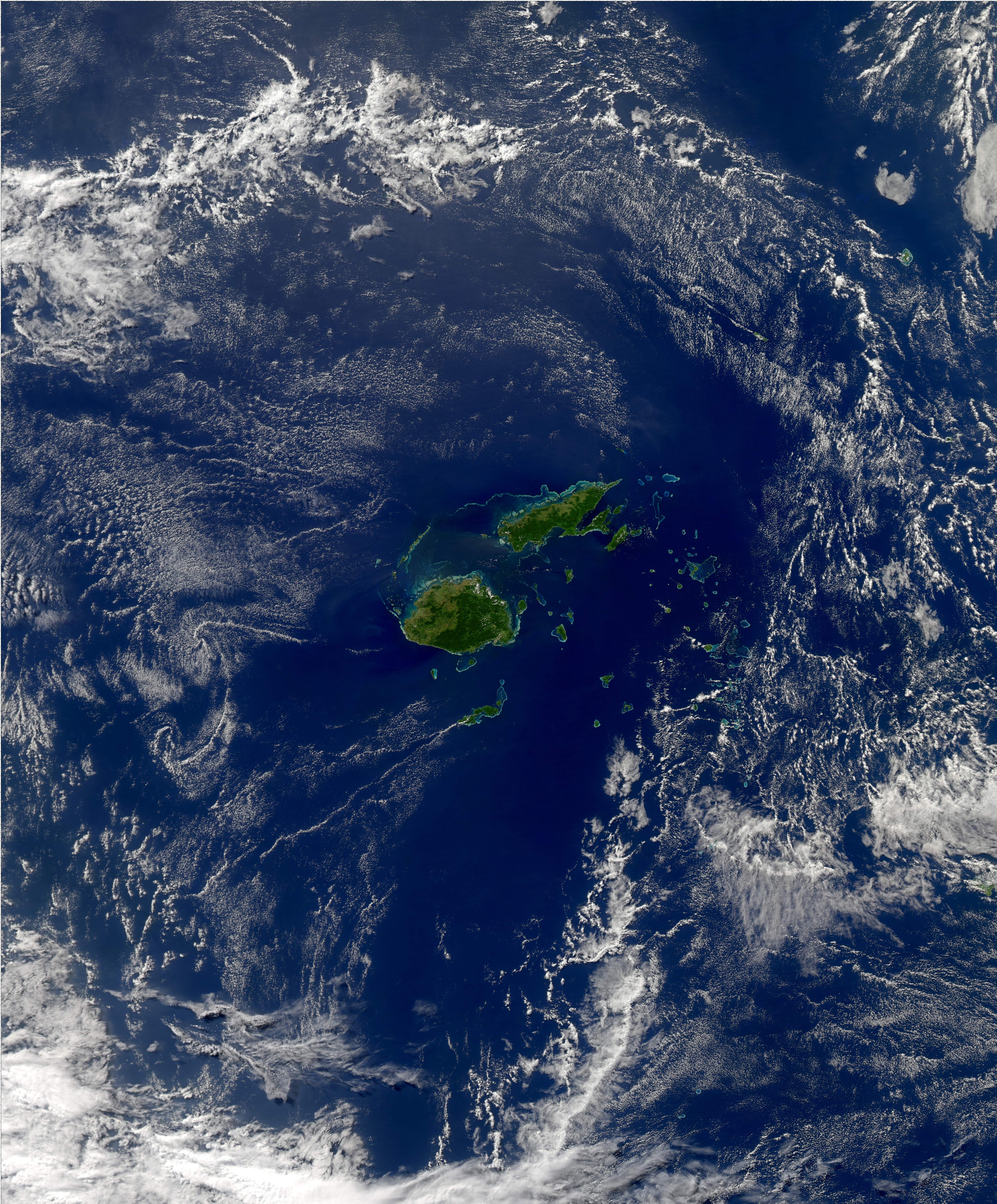 Image showing Fiji’s second-largest island, Vanua Levu, and the Cakaulevu Reef that shelters the island’s northern shore. Also called the Great Sea Reef, Cakaulevu shines turquoise through clear, shallow waters.